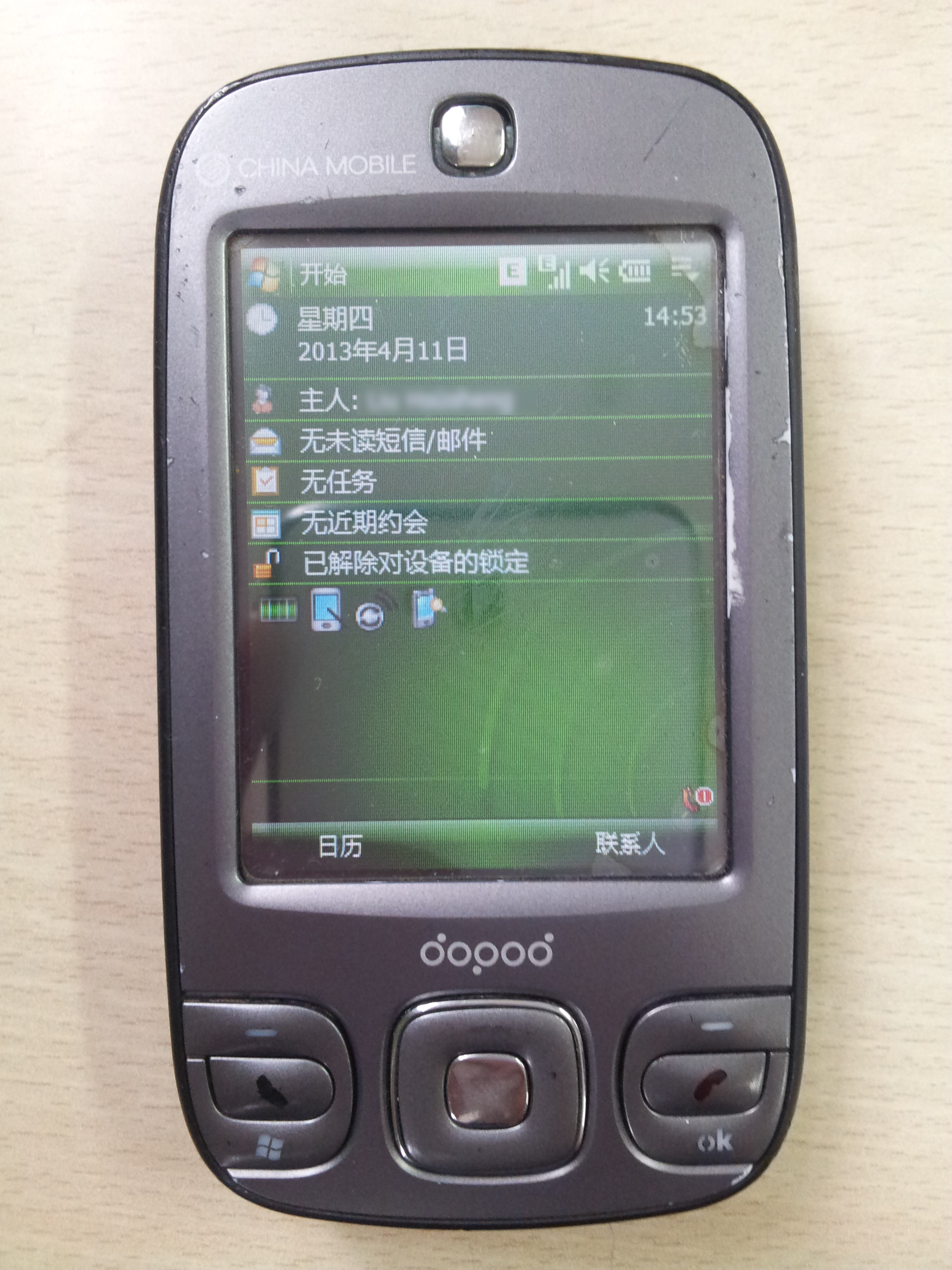 Dopod D600(HTC Gene) CMCC Version running customized Windows Mobile 6.1 with default theme.